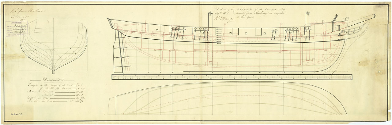 Vautour (1809) Scale: 1:48. Plan showing the body plan, sheer lines with inboard detail, and longitudinal half-breadth for Vautour (1809), a 16 gun Brig/Sloop brought, incomplete, from Flushing and completed at Chatham Dockyard. Signed by Robert Seppings [Master Shipwright Chatham Dockyard, 1803-1813]. VAUTOUR 1810